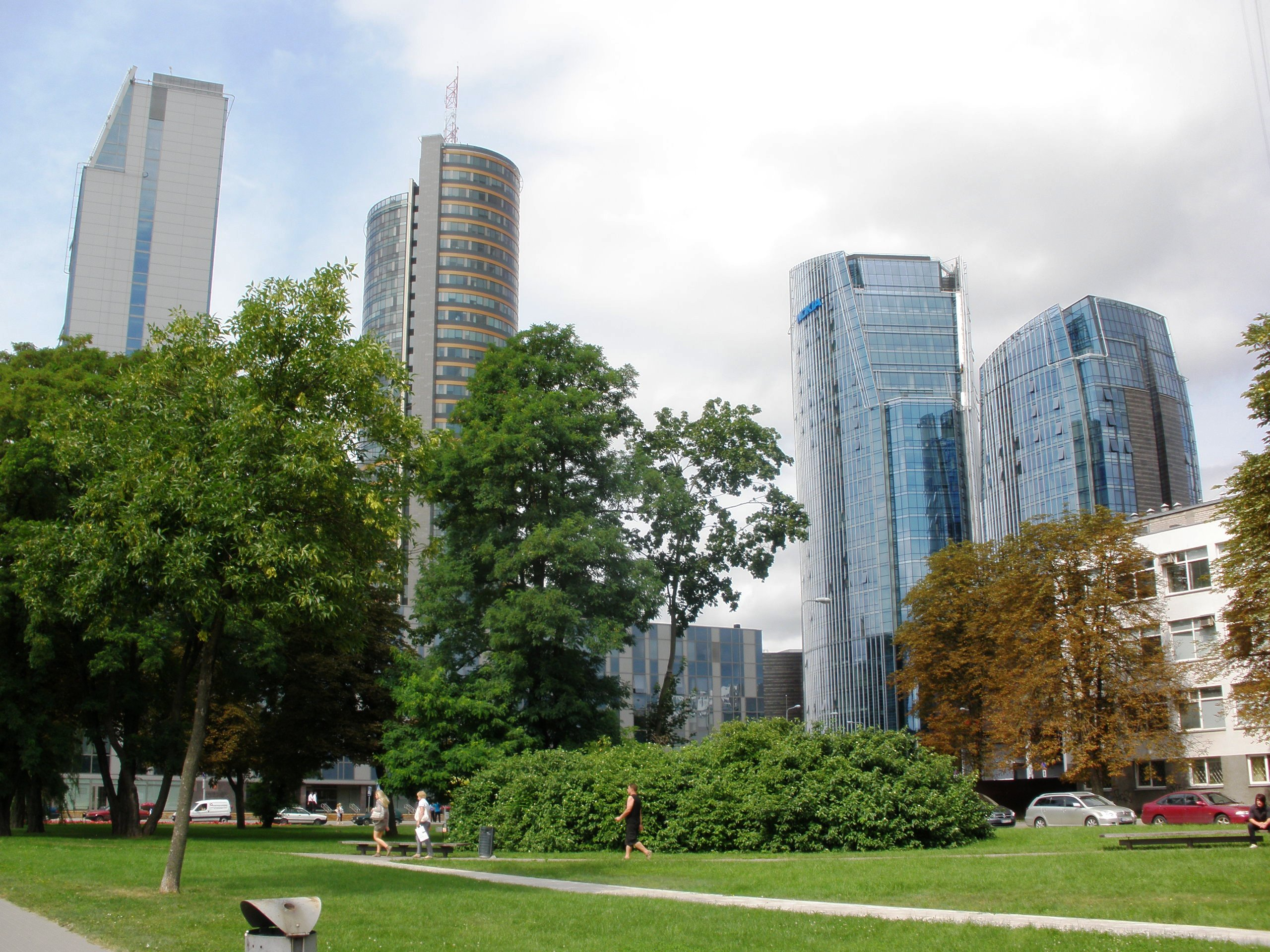 Skyscrapers in Vilnius, Lithuania